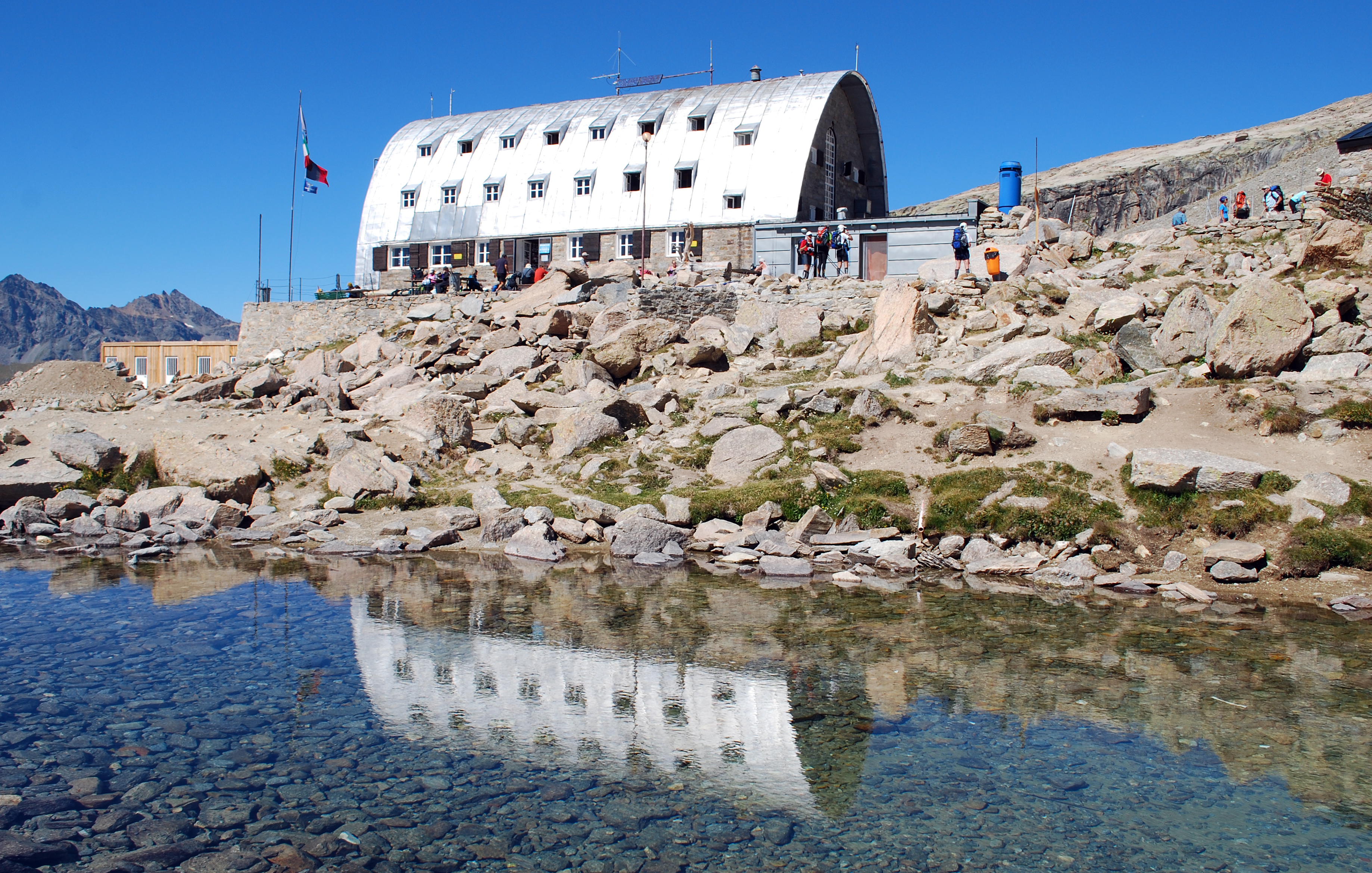 Rifugio Vittorio Emanuele II